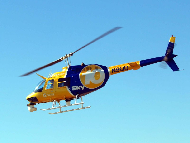 Photo of KGTV's helicopter Sky10 Please acknowledge "Phil Konstantin" as the creator of this photograph.